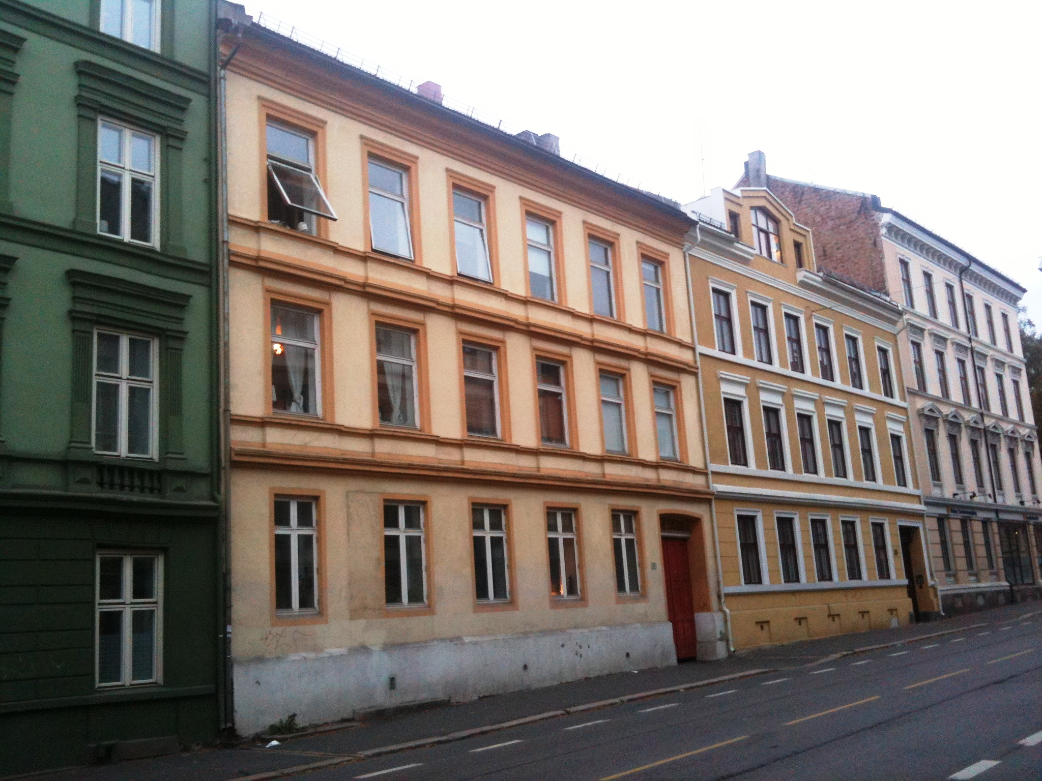 Dwelling department protected as architectural heritage site, part of a grand protection scheme covering several blocks around Birkelunden park in Grünerlökka, Oslo (Norway).